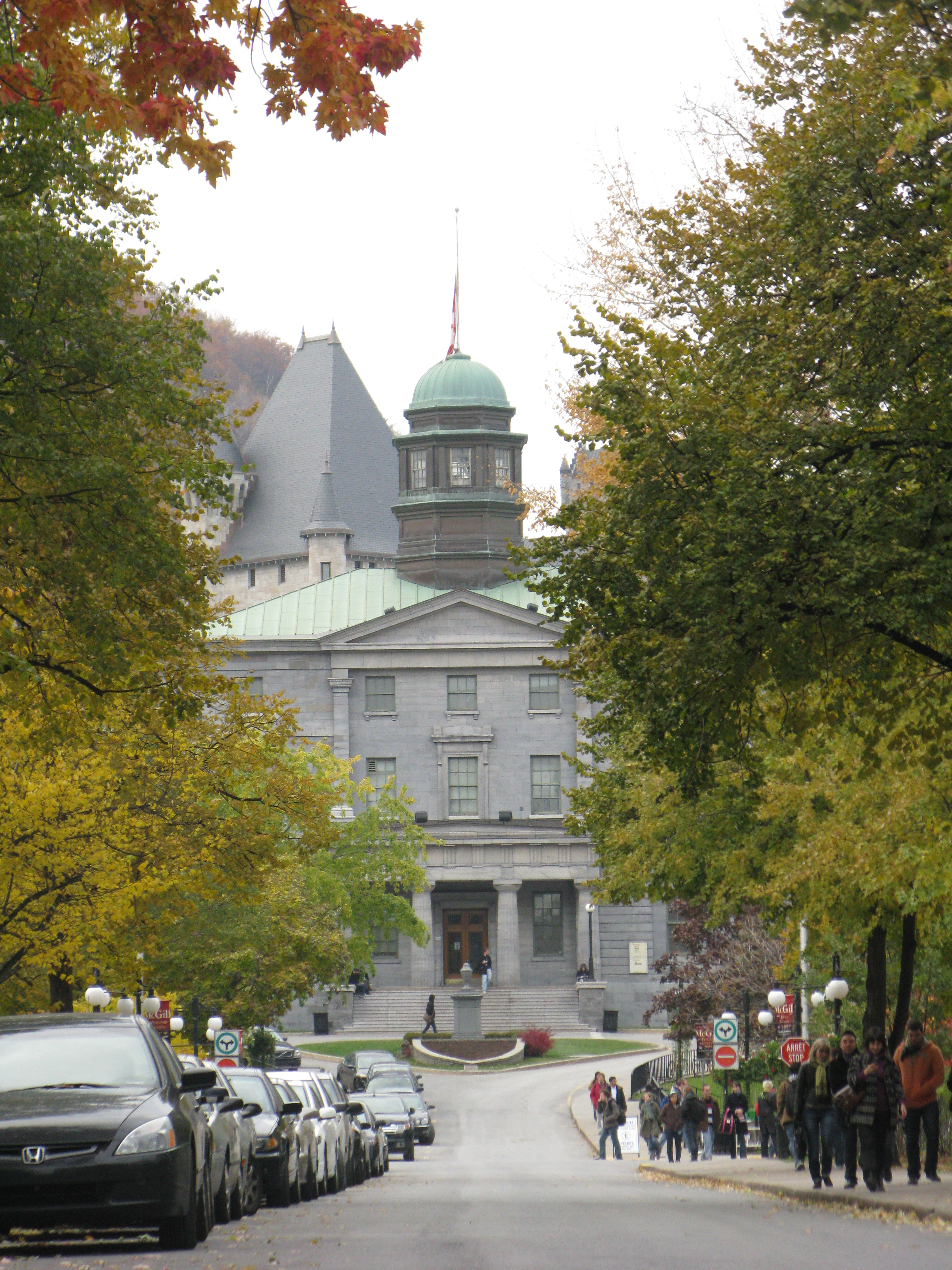 McGill's Arts Building